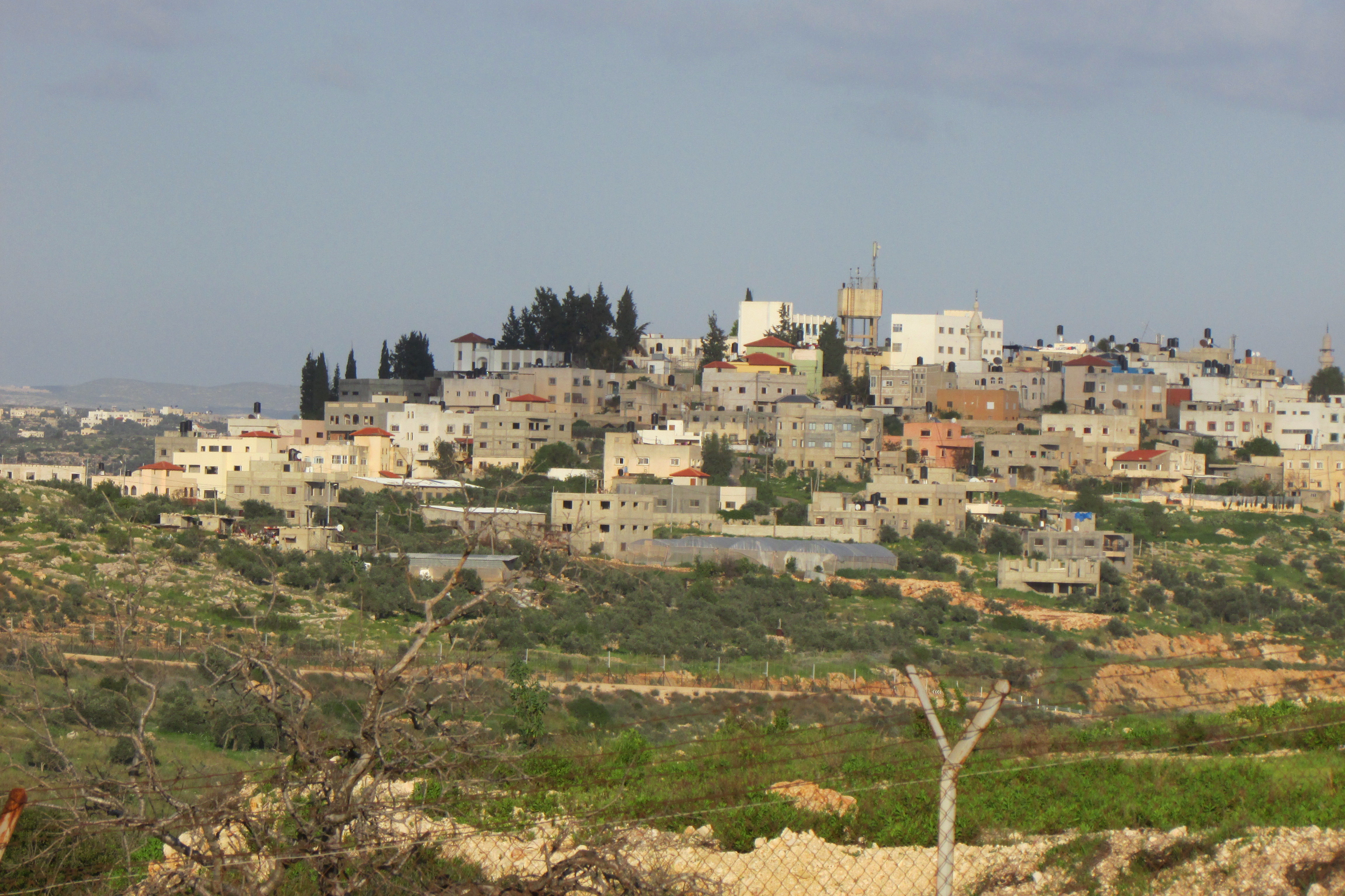 Jayyous viewed from Tzofim